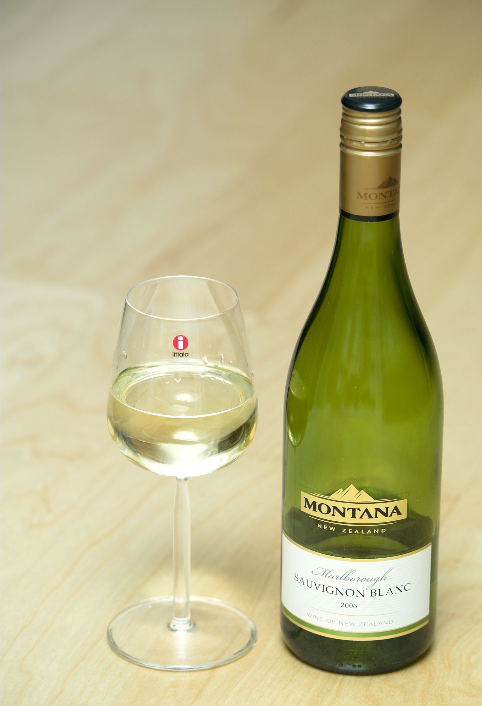 Montana Marlborough Sauvignon Blanc 2006, from Marlborough, New Zealand. Wine Glass is Iittala (Finnish brand).